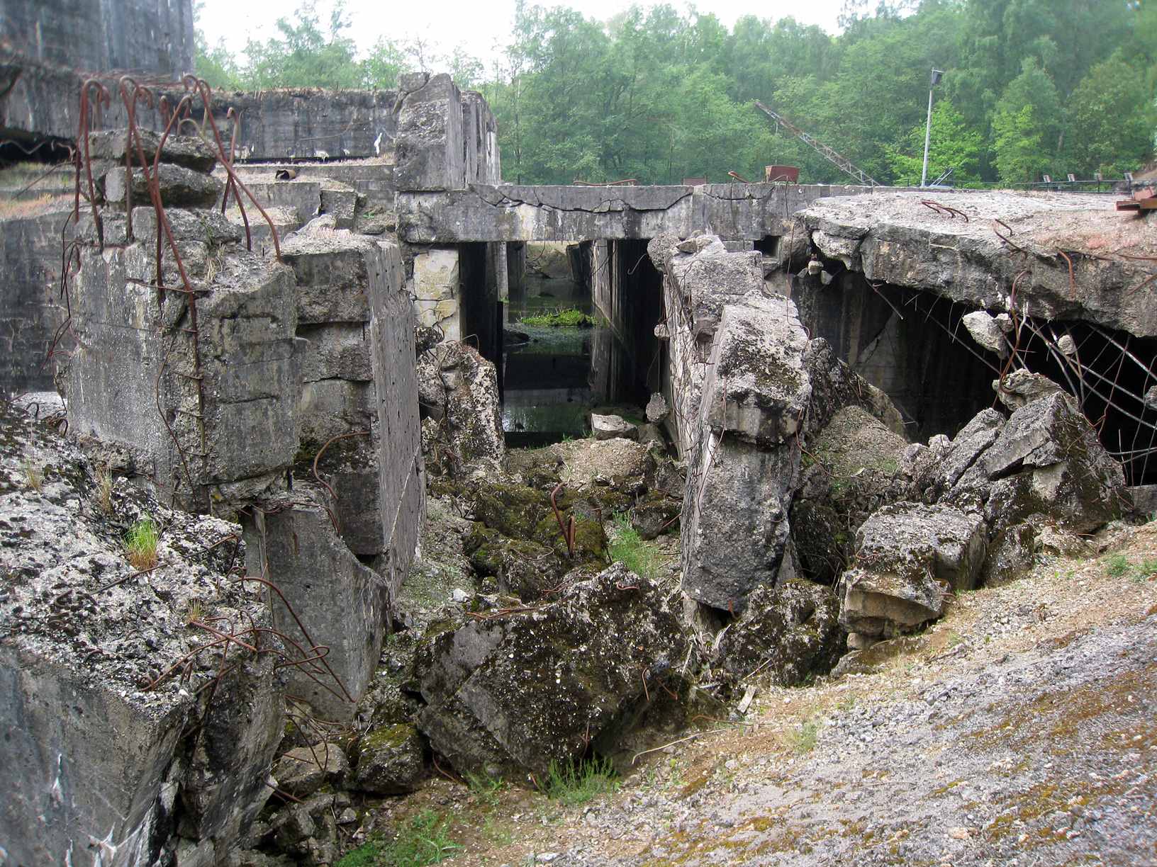 The destroyed remains of the fortified train station at the Watten V-2 launch site.